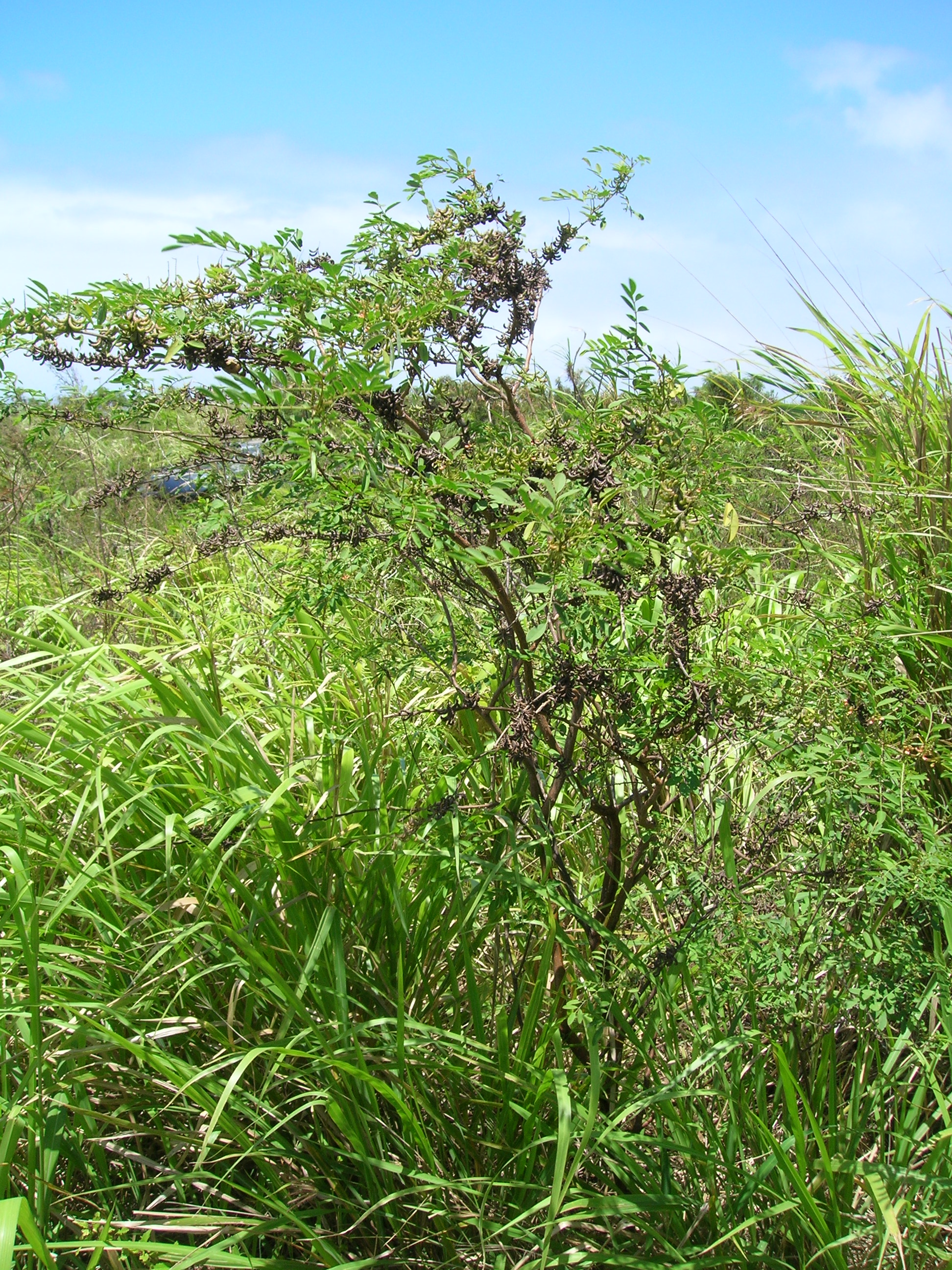 Indigofera suffruticosa (habit). Location: Maui, Paia